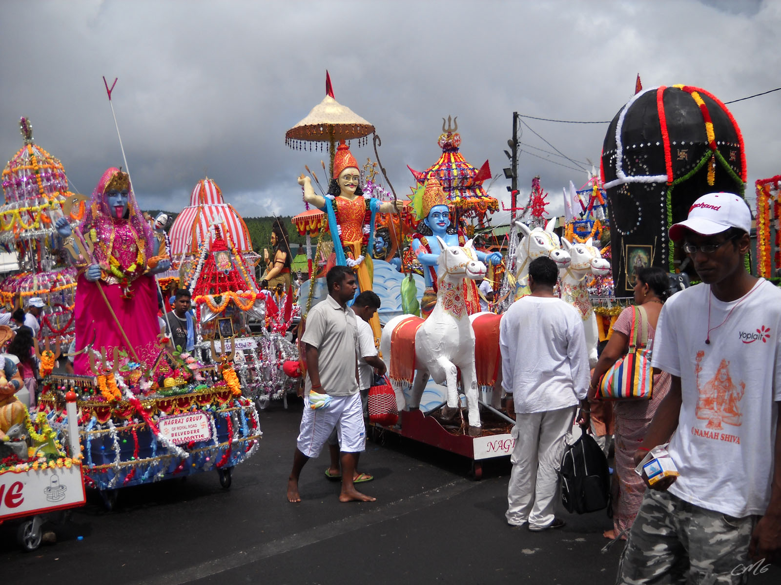 Hindu celebration in Mauritius